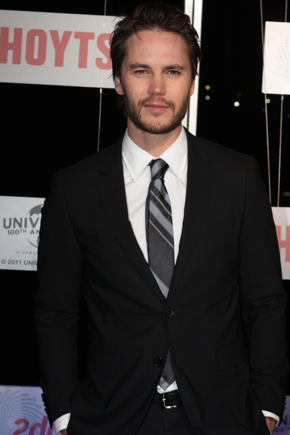 Taylor Kitsch at Battleship Australian premiere